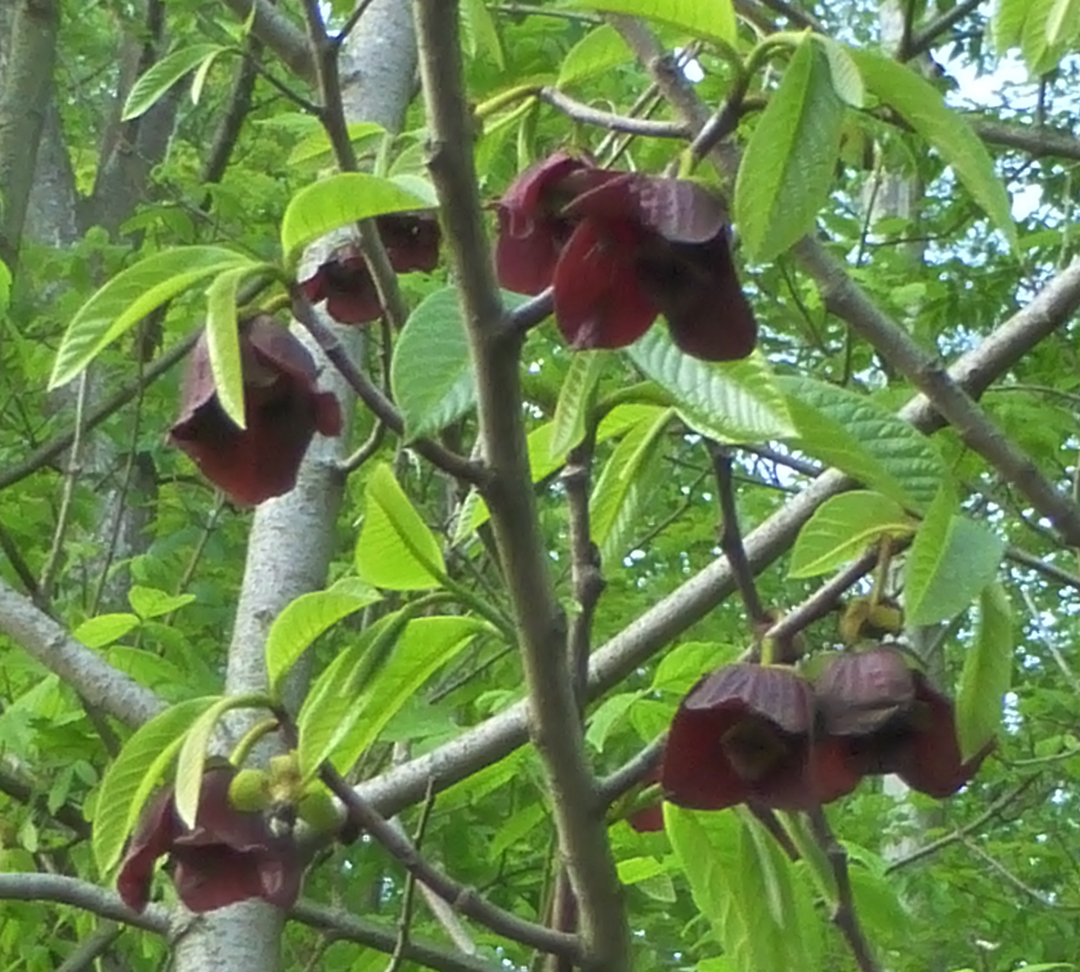 Paw paw blossom, northern Ohio. Photo by Geoffrey A. Landis